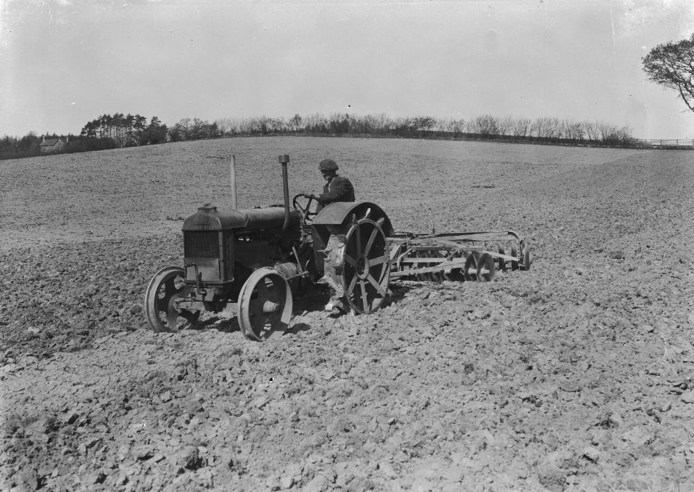 Abstract: Man harrowing on Fordson tractor with disk harrow.